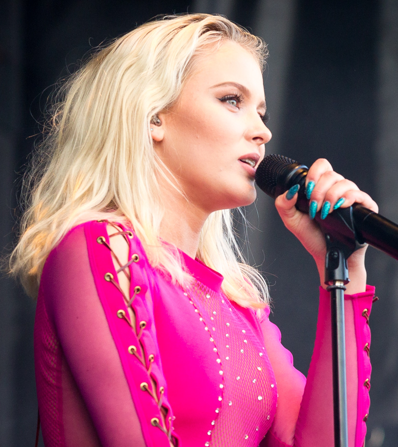 Zara Larsson at the minor stage during Stavernfestivalen in Stavern on 08. July 2016. Lineup:Zara Larsson (vocal)